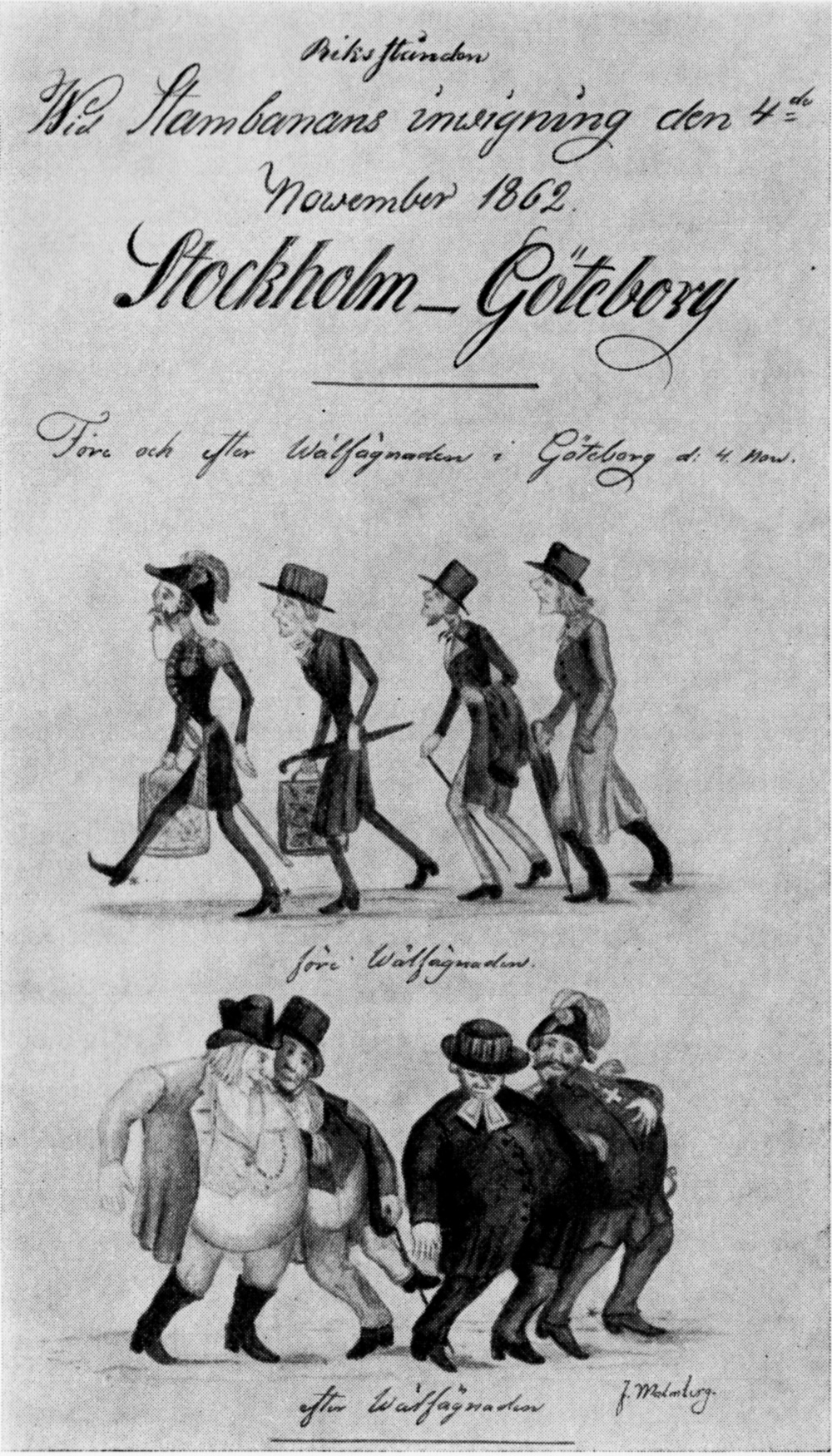 Satire drawing depicting members of the Riksdag of the Estates, before and after visiting Gothenburg and its banquets, celebrating the opening of Western Main Line in 1862.